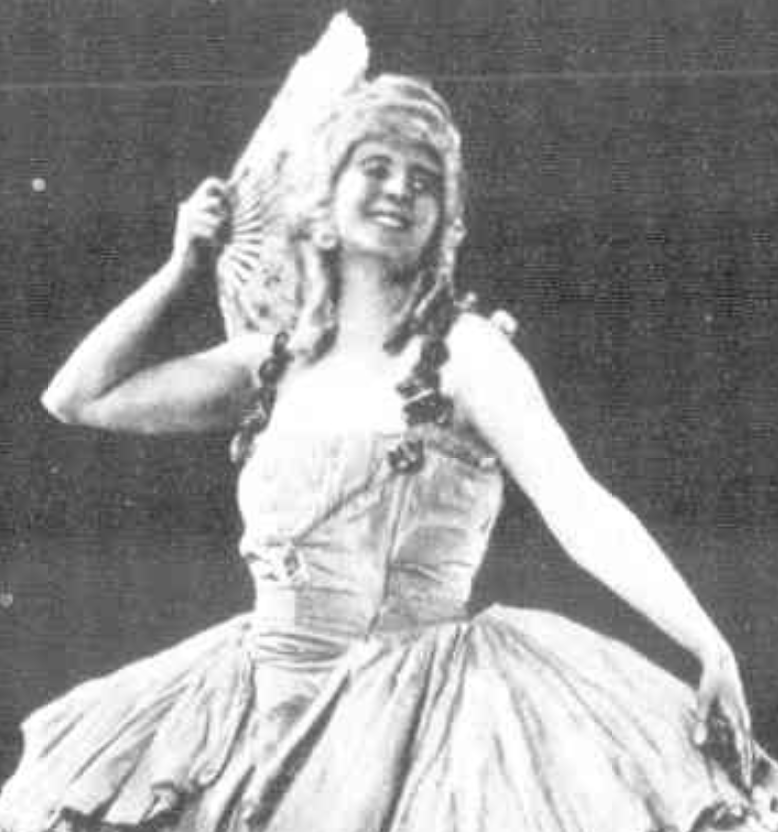 Clytie Hine (1887-1983) Australian soprano and vocal teacher